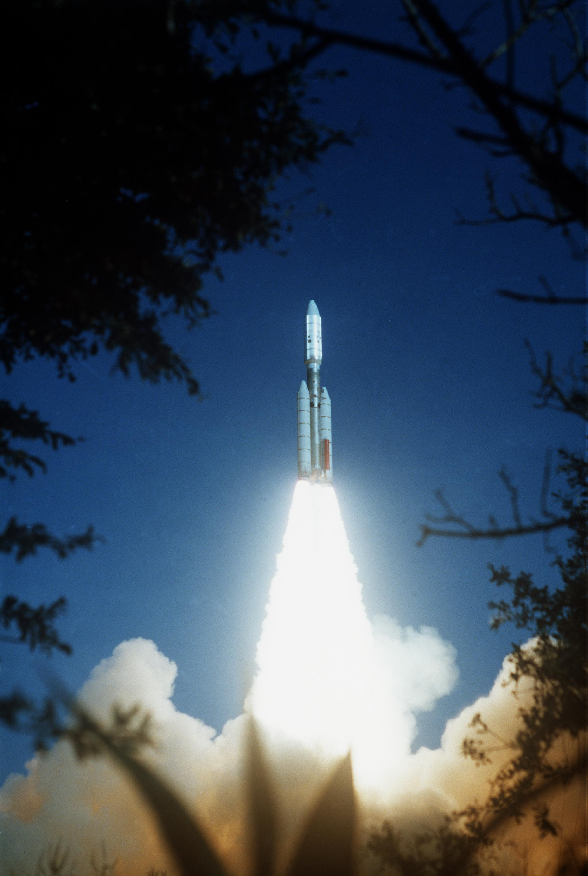 Voyager 2 was launched on August 20, 1977, from the NASA Kennedy Space Center at Cape Canaveral in Florida, propelled into space on a Titan/Centaur rocket.